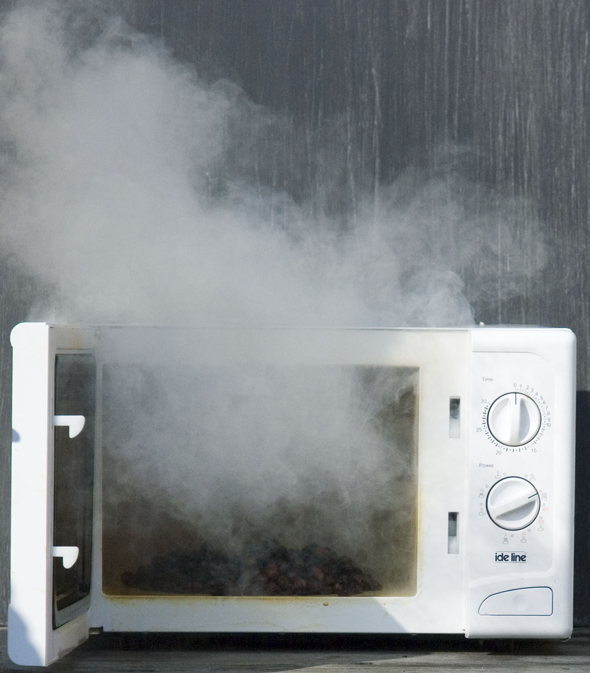 Putting raisins in a microwave oven produces large quantities of smoke.